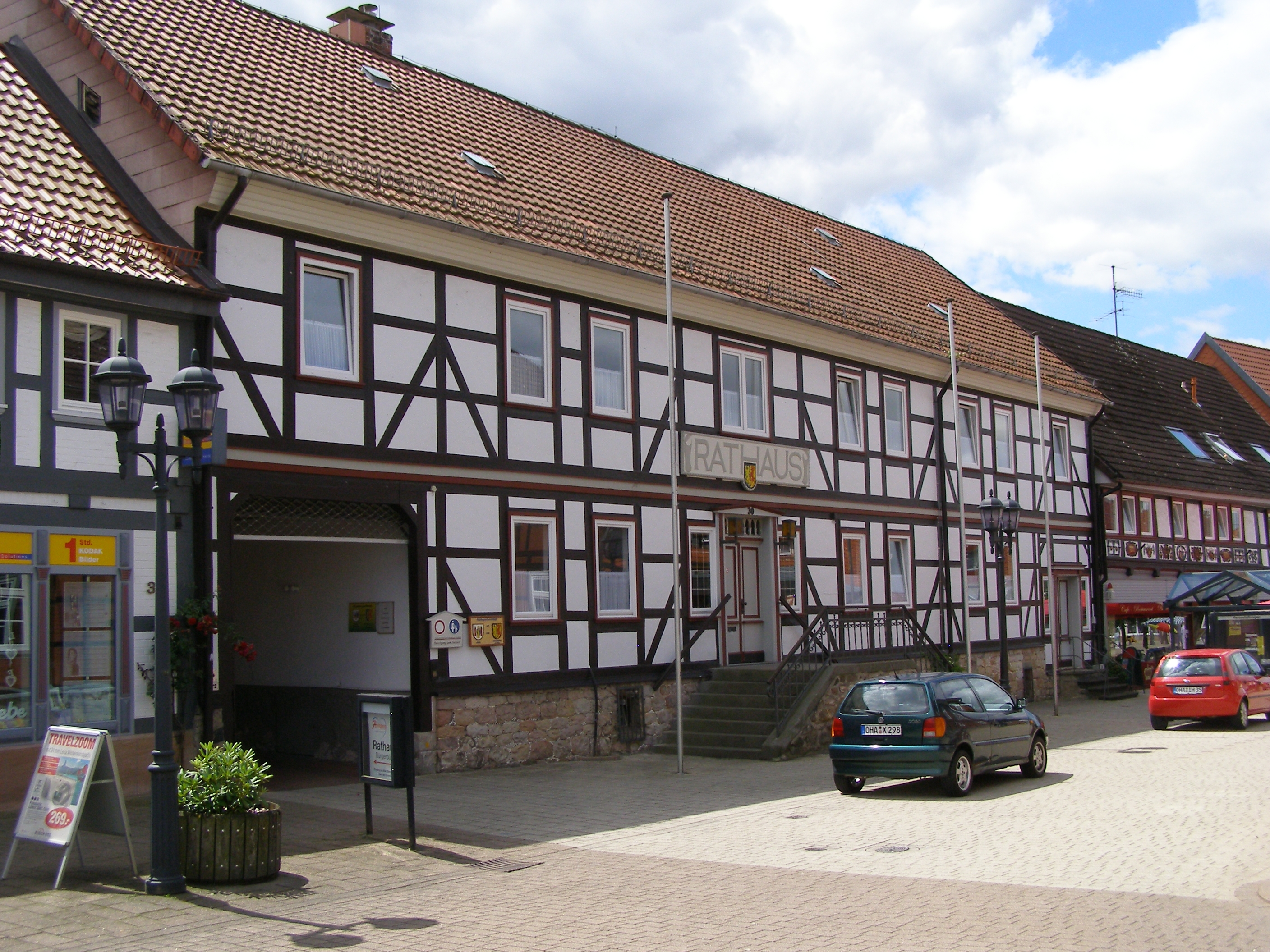 Herzberg am Harz - town hall